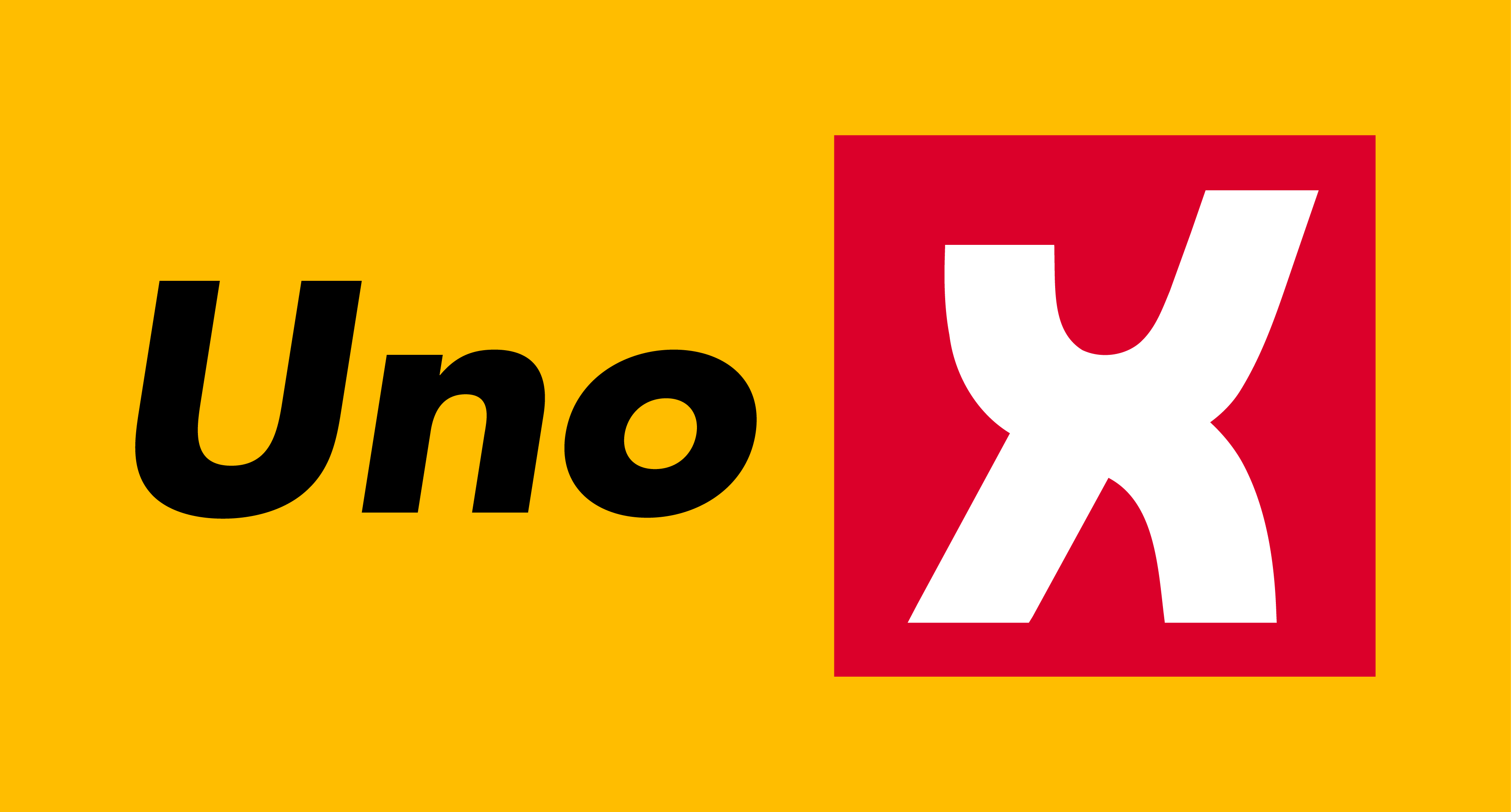 The logo of the company Uno-X Automat